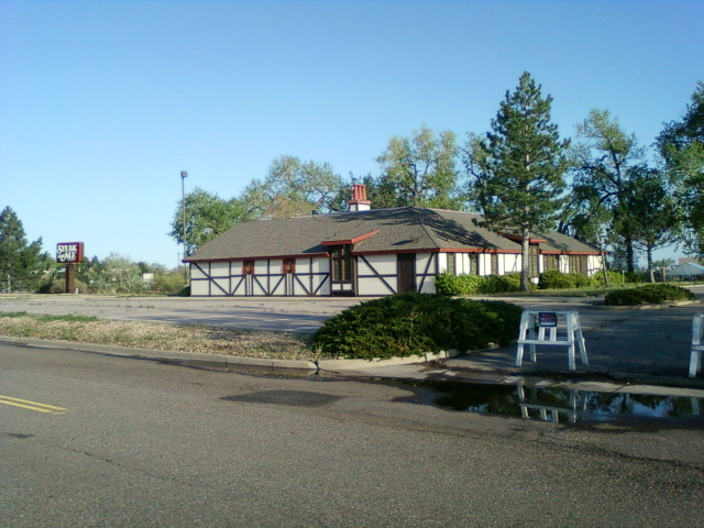 Abandoned Steak and Ale restaurant at Westminster Mall in Colorado. Building was demolished sometime between July of 2011 and March of 2012.